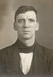 Frederick William Barrett, lead stocker on the RMS Titanic.